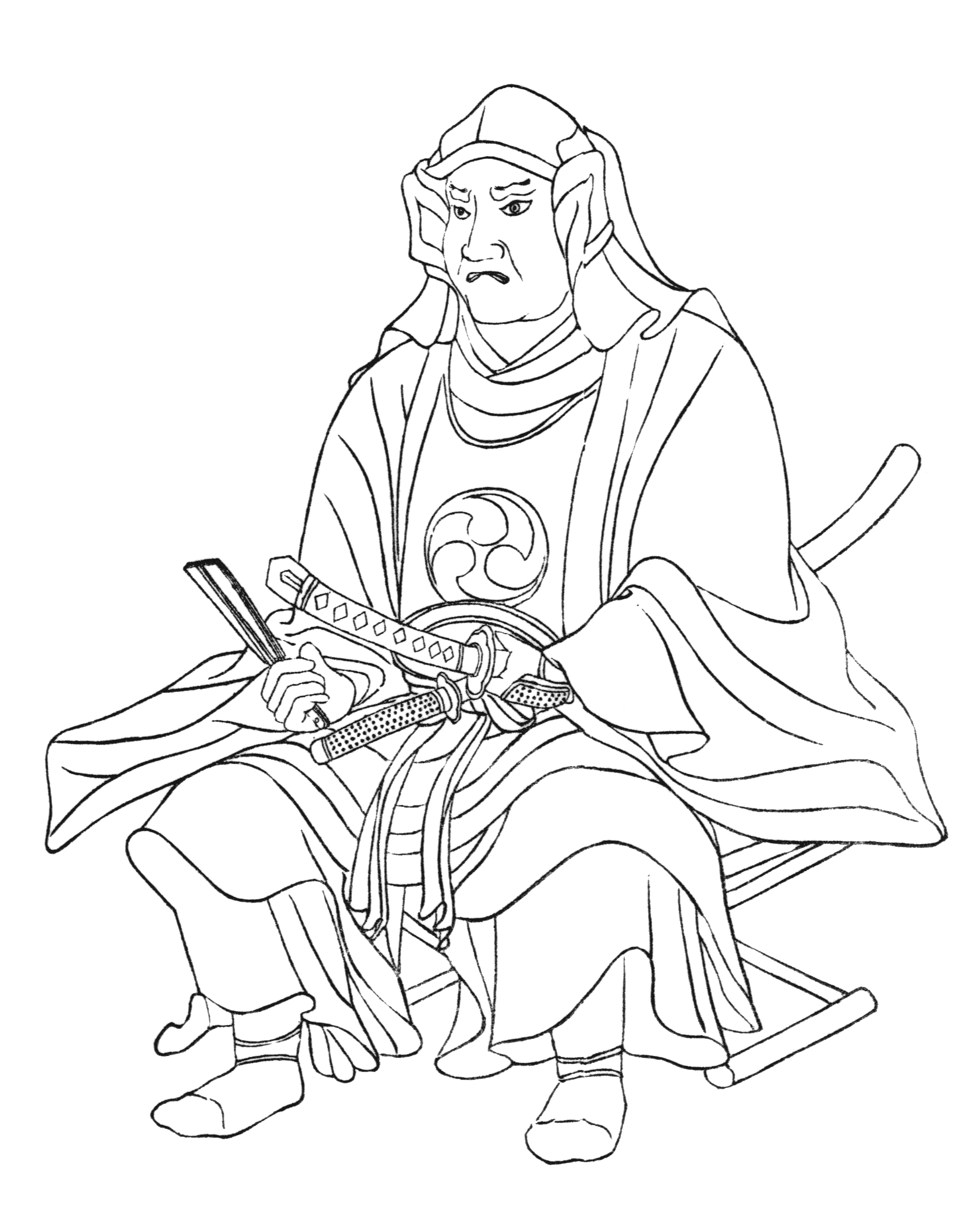 Portrait of Akamatsu Norisuke